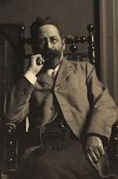 Photograph of Danish painter Edvard Petersen